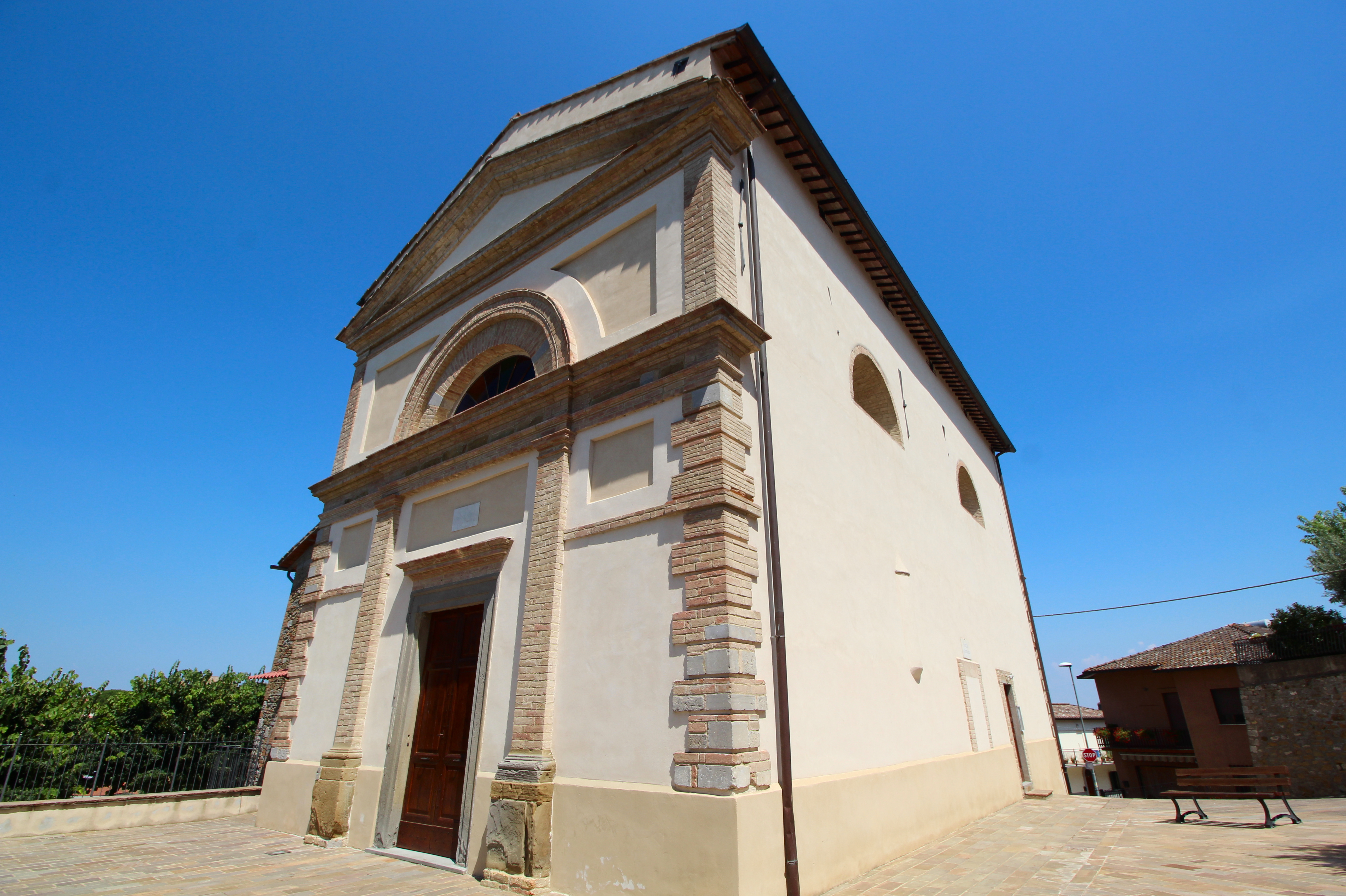 Church San Donato, Agello, hamlet of Magione, Umbria, Italy